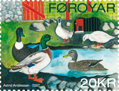 Stamp FO 605 of the Faroe Islands - Ducks